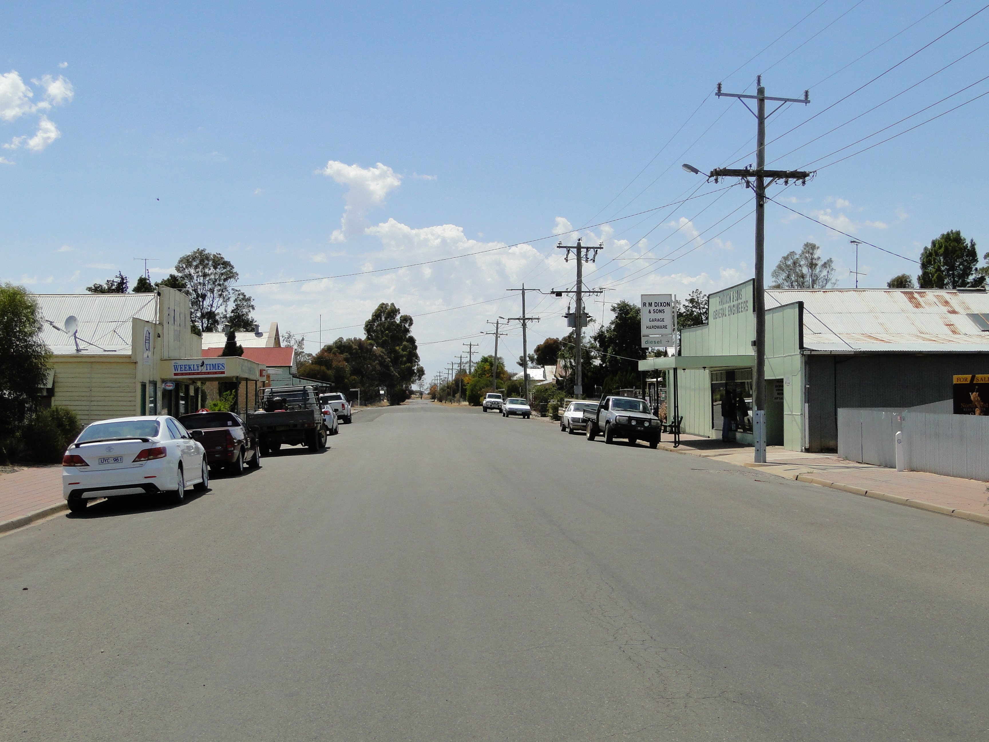 The Swann street, the main street of Brim, Victoria, Australia, looking east.